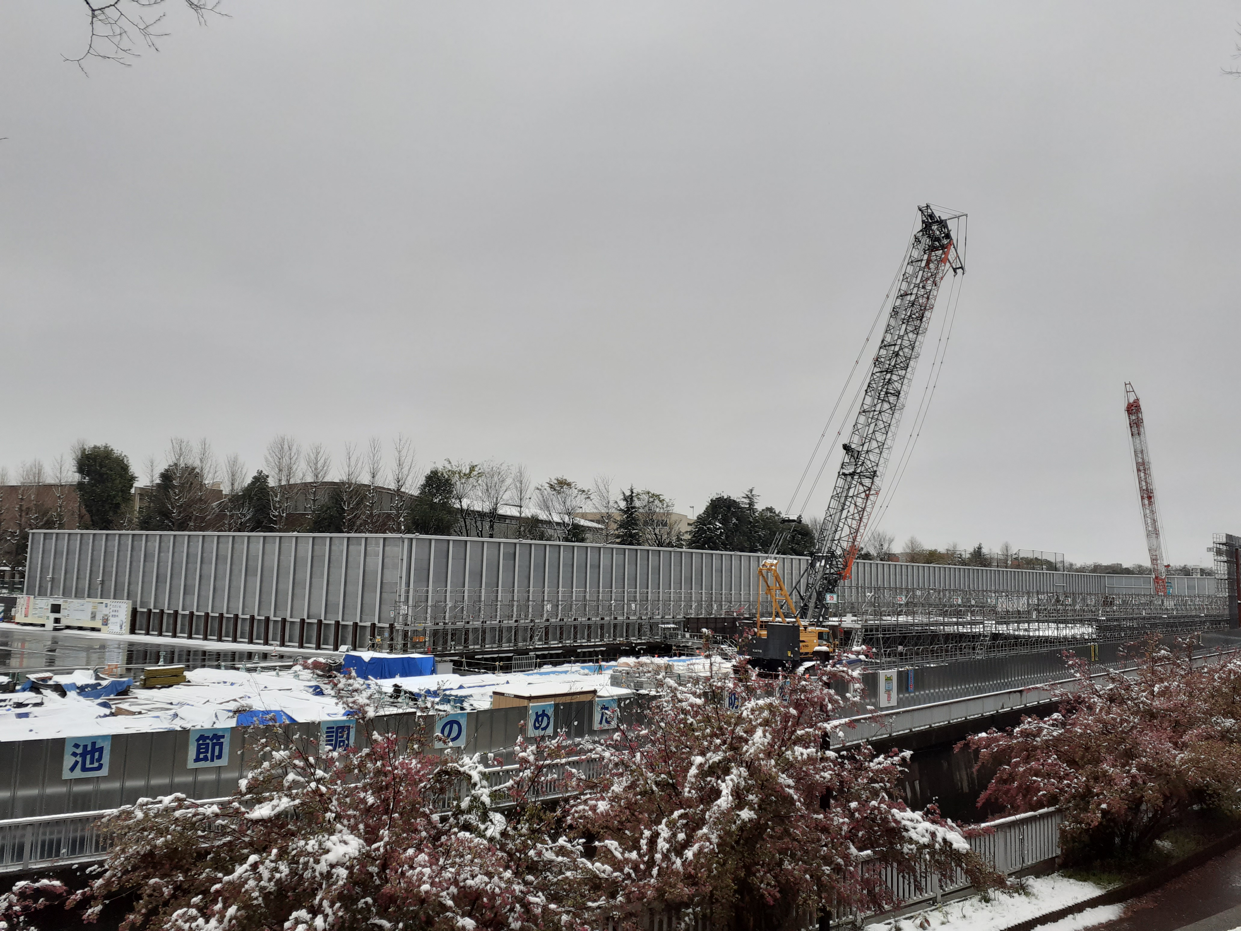 The retention basin under construction in Jōhoku-Chūō Park, Nerima, Tokyo, Japan on 29 March 2020.